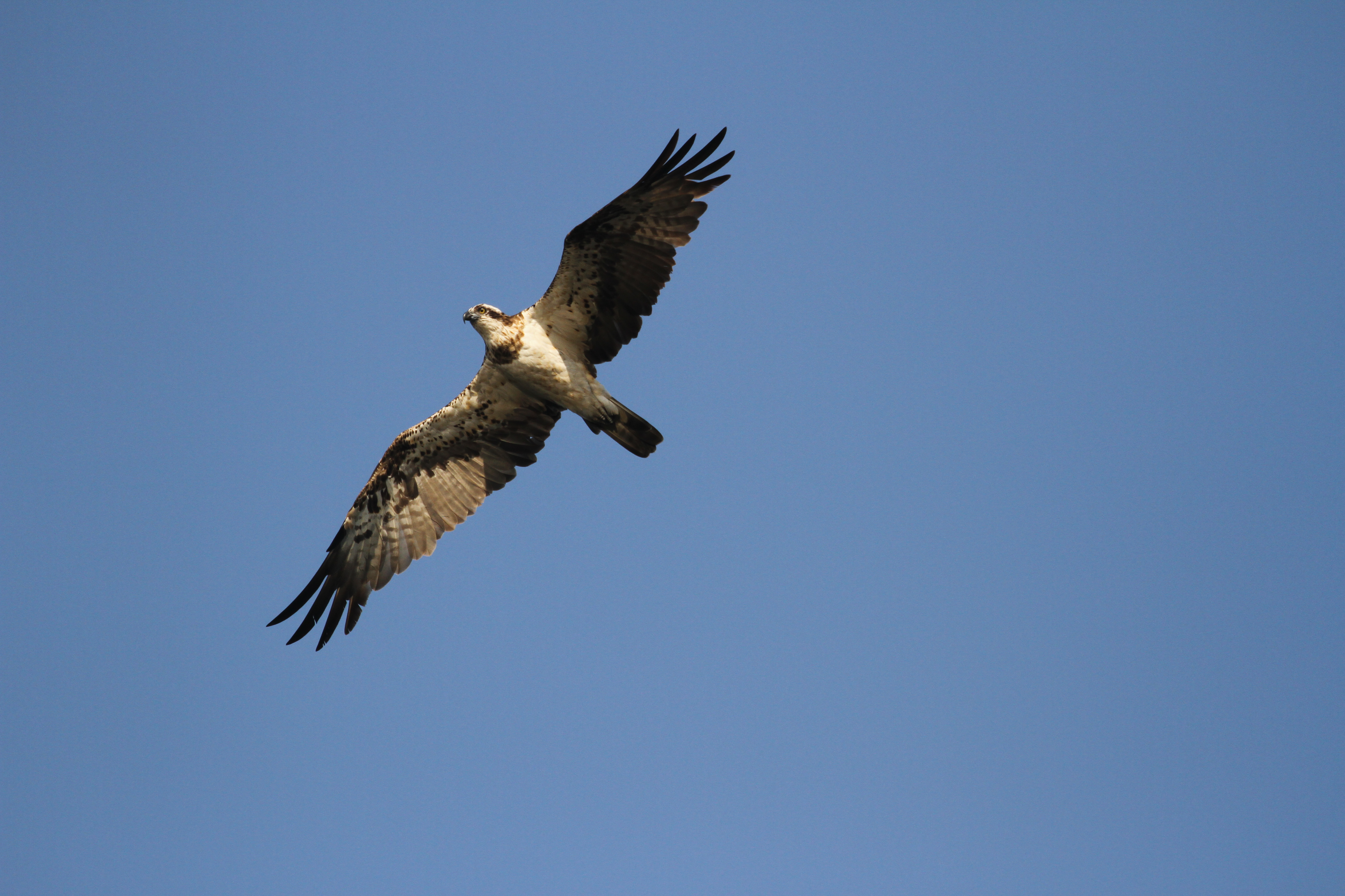 birds of India